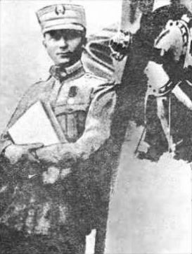 Mircea Zorileanu near a Blériot XI